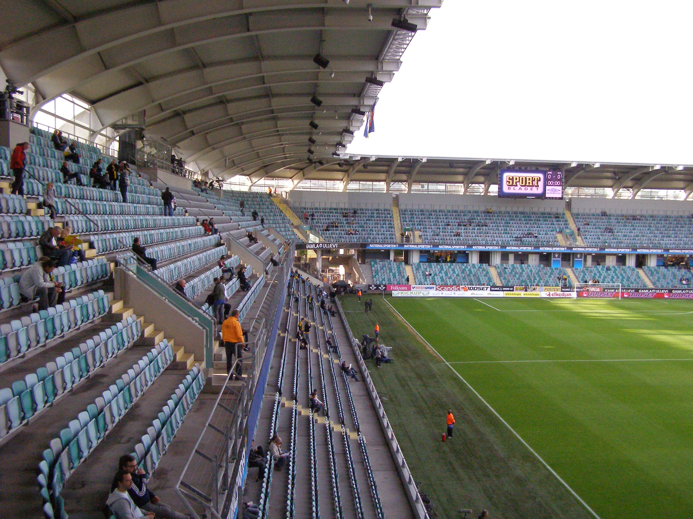 Gothenburg - Gamla Ullevi - Sweden-Iceland friendly